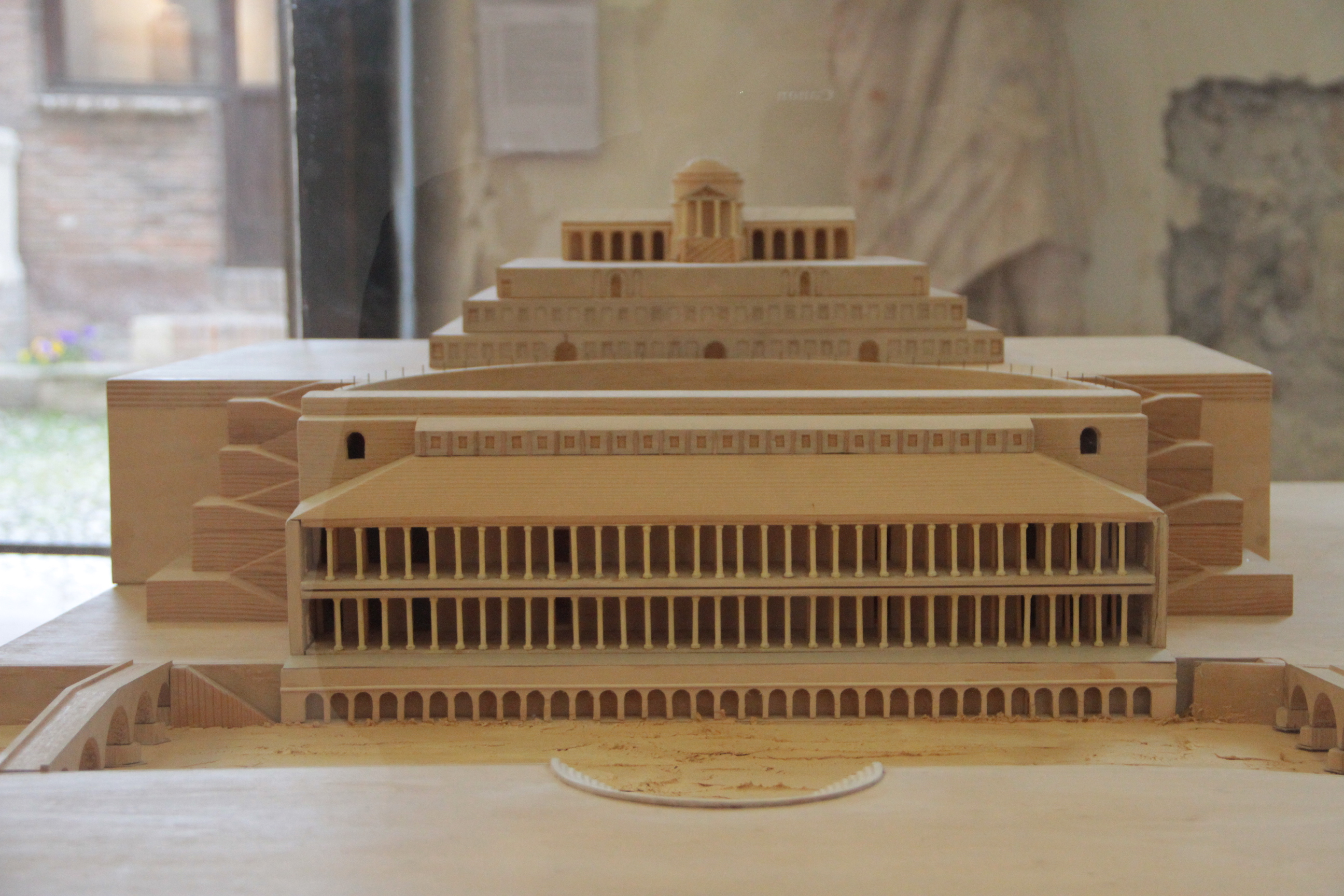 Ancient Roman theatre (Verona), a plastic model in Museo archeologico al teatro romano (Verona).